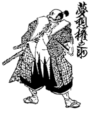 the wood engraving of Muso Gonnosuke Katsuyoshi